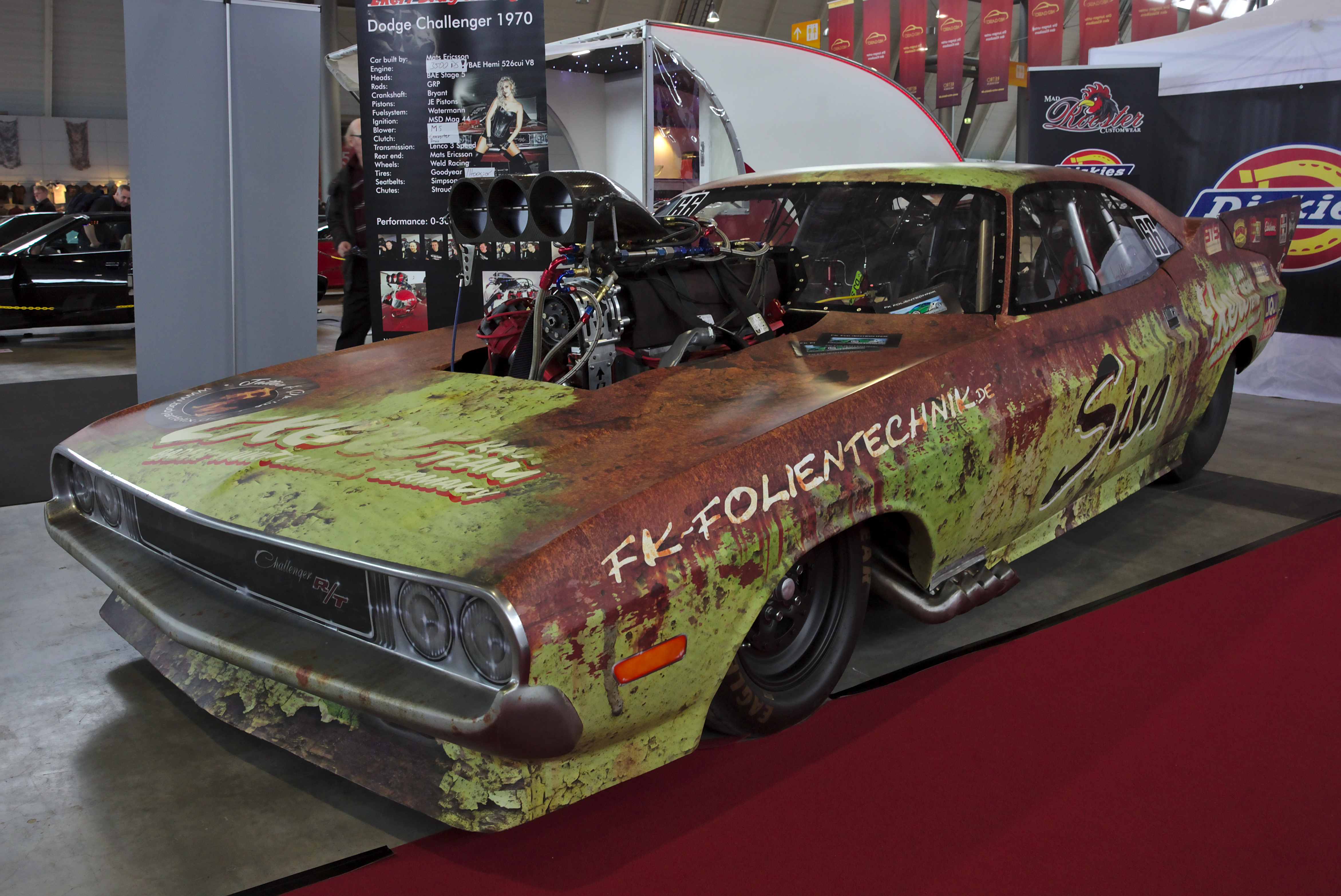 Dodge Challenger at Retro Classics 2018